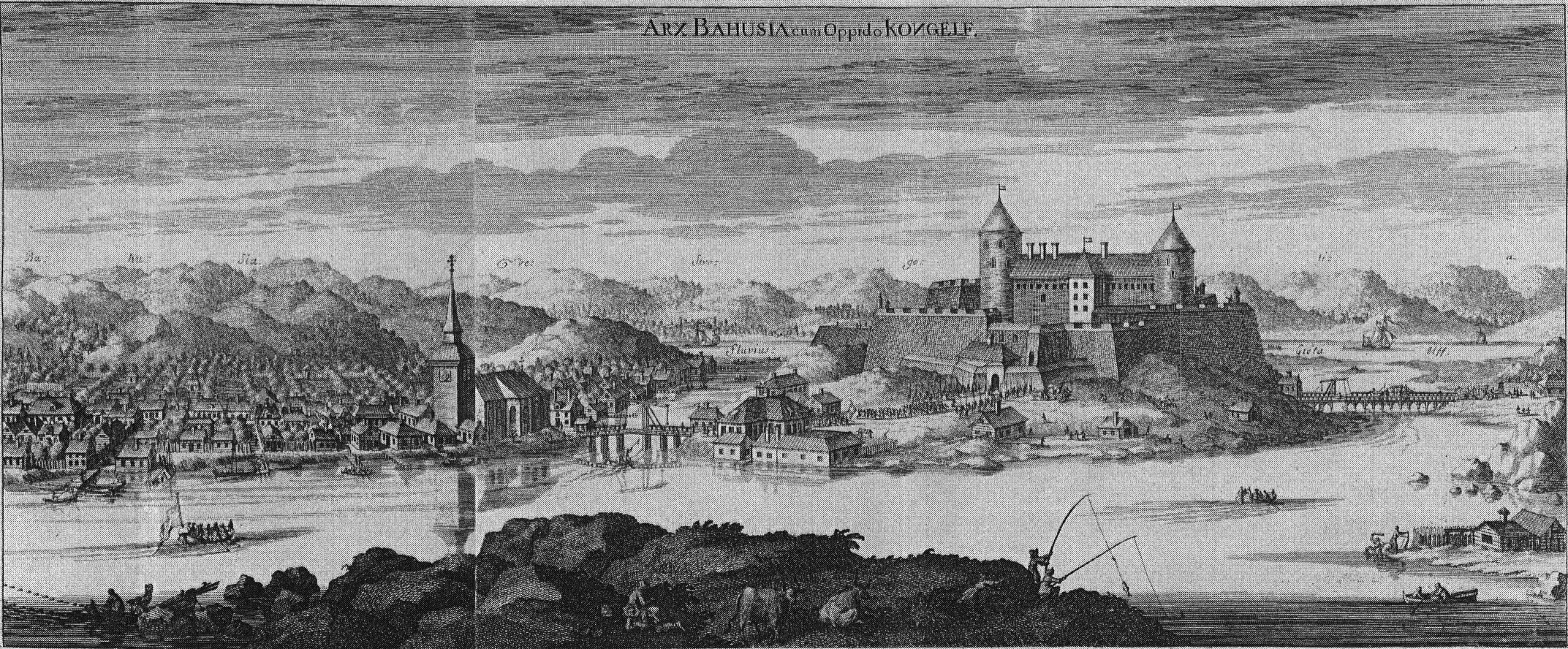 The Swedish fortress Bohus and town Kungälv at 1713.